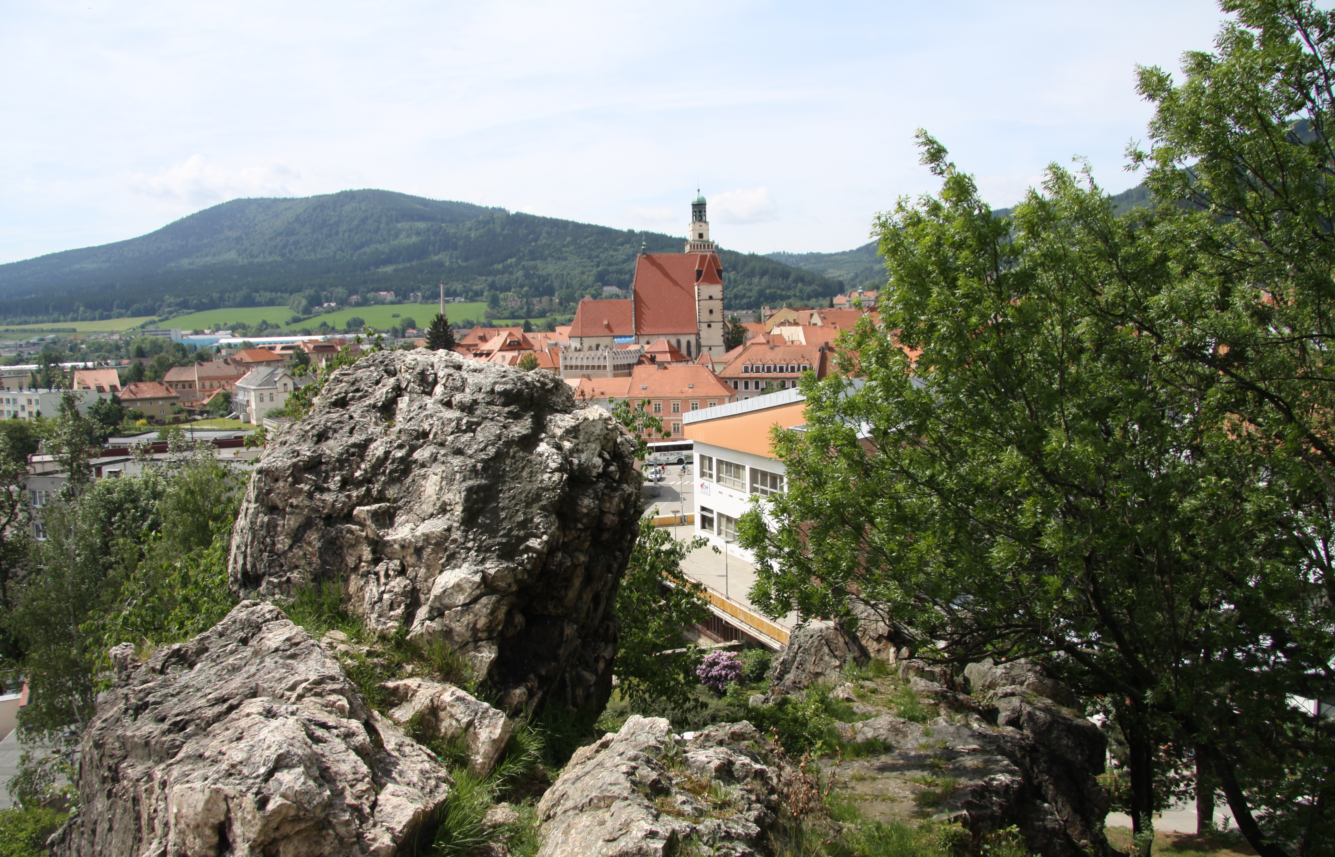 Natural monument Žižkova skalka in Prachatice, Prachatice District, Czech Republic